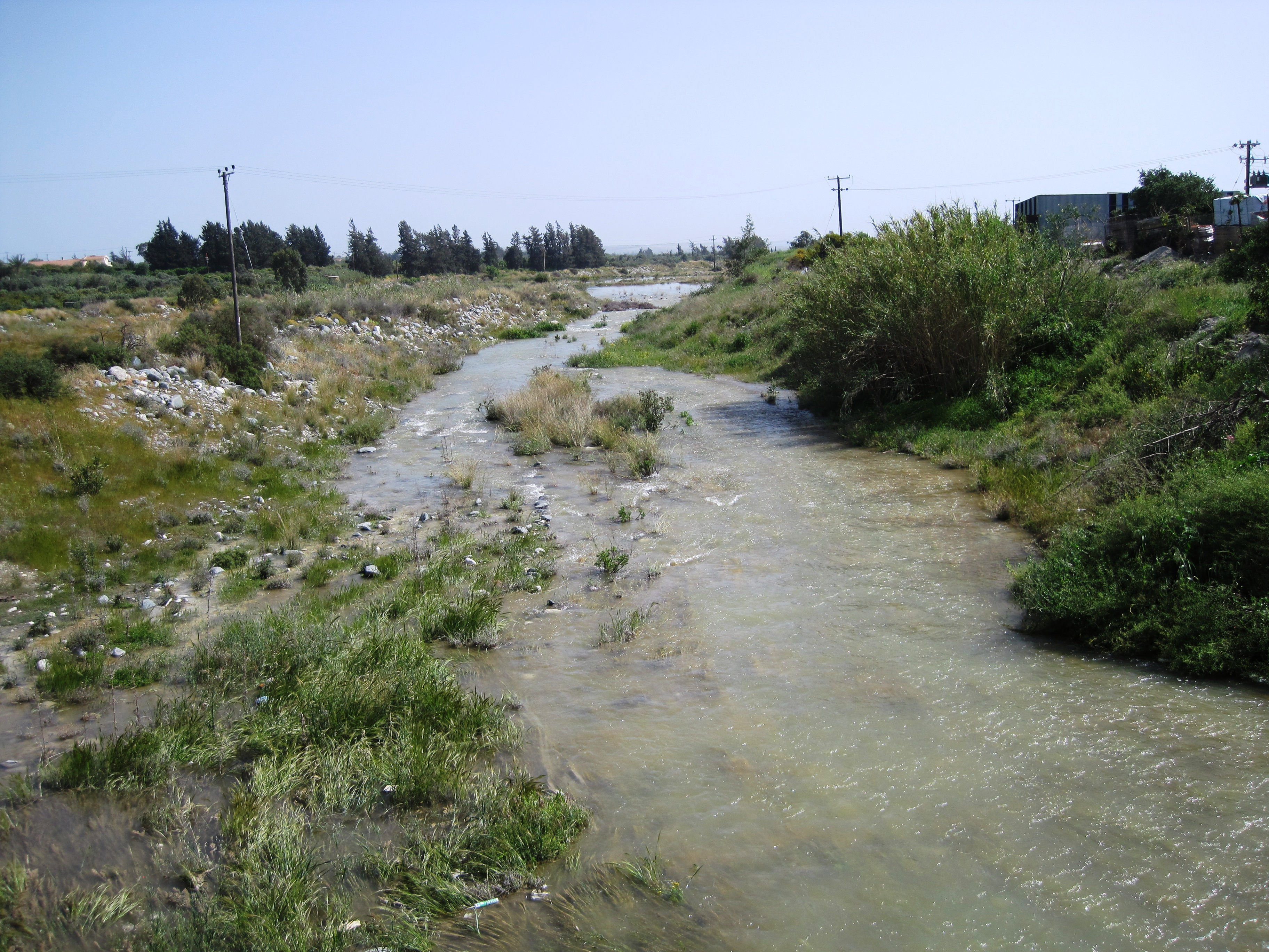 Kouris River towards the sea